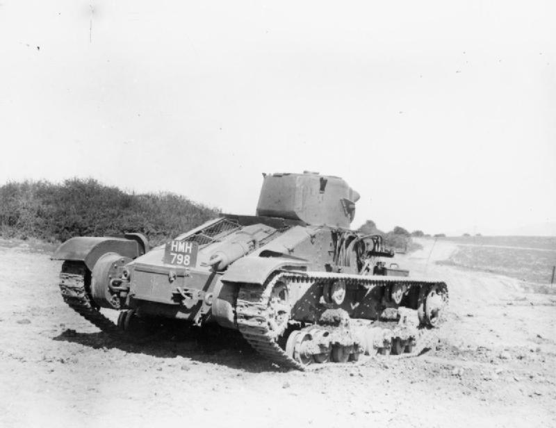 BRITISH ARMOURED FIGHTING VEHICLES 1918-1939; Infantry Tank Mk.I (Matilda I)